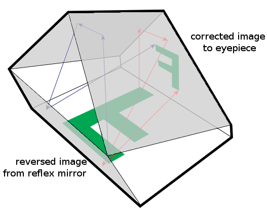 SLR pentamirror